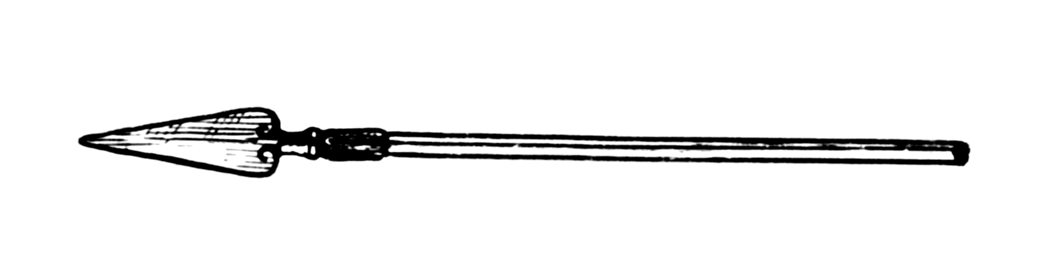 Line art drawing of spear